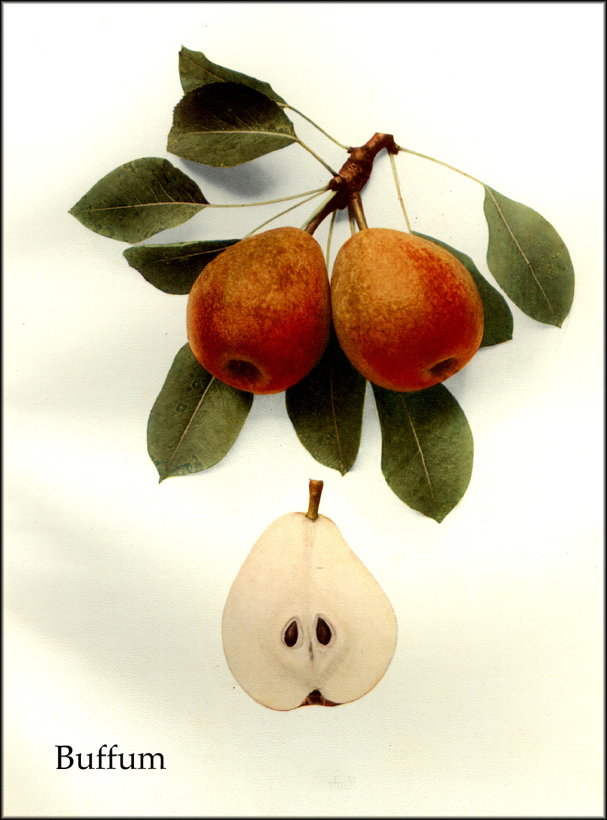 A colour plate from The Pears of New York (1921) depicting the Buffum pear cultivar.